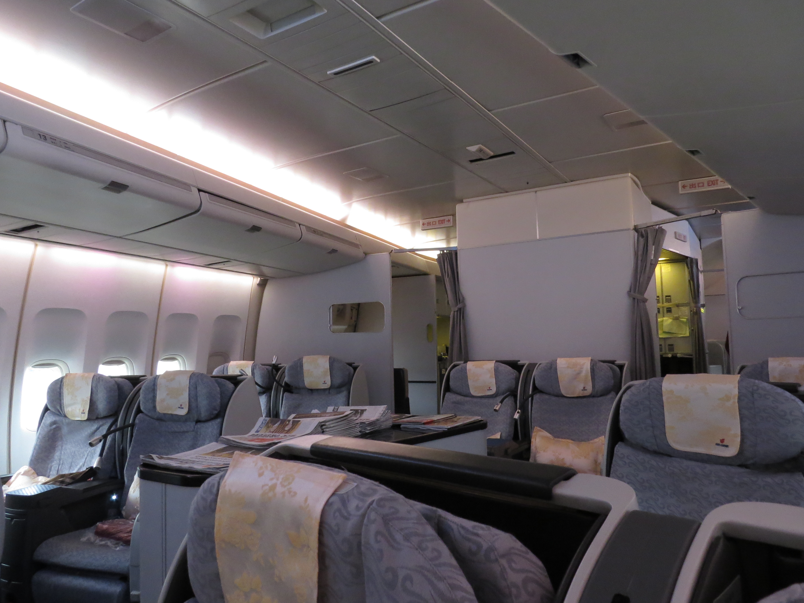 CA1316 from CAN to PEK. This 1993-built 747-4J6 had just finished the final flight flown by a 747-400 between China and USA on February 11, 2014, as CA986. The "Capital Pavilion" business class is located in the front section, unlike most airlines.